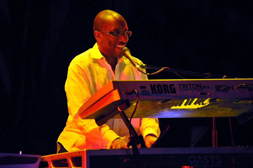 Greg Phillinganes performing in Warszawa, Poland with Herbie Hancock.